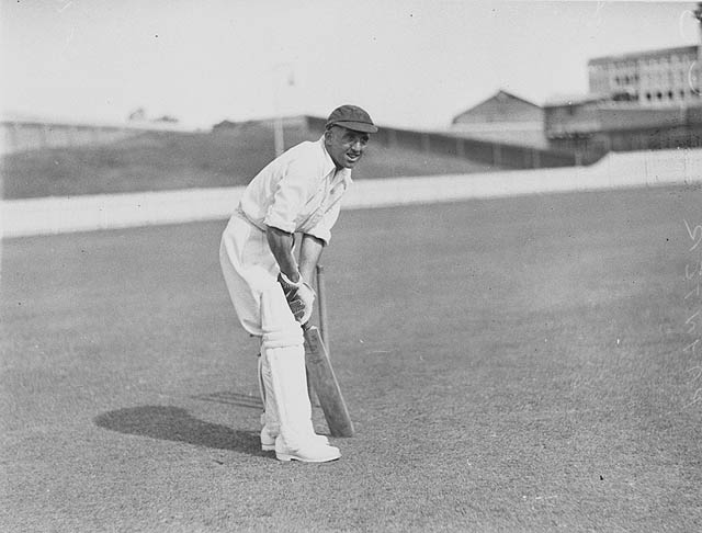 English cricketer Eddie Paynter at the SCG